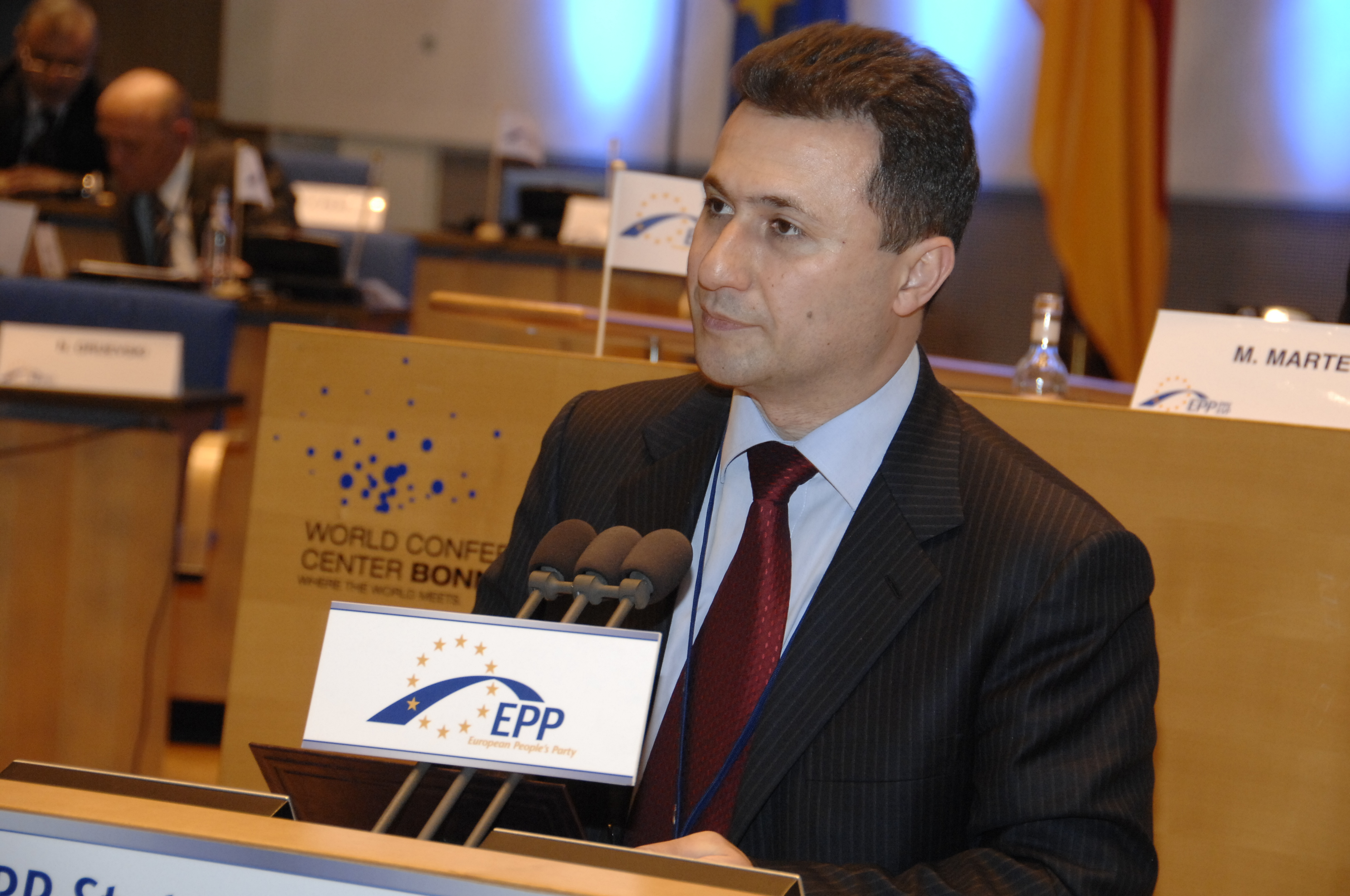 EPP Congress Bonn